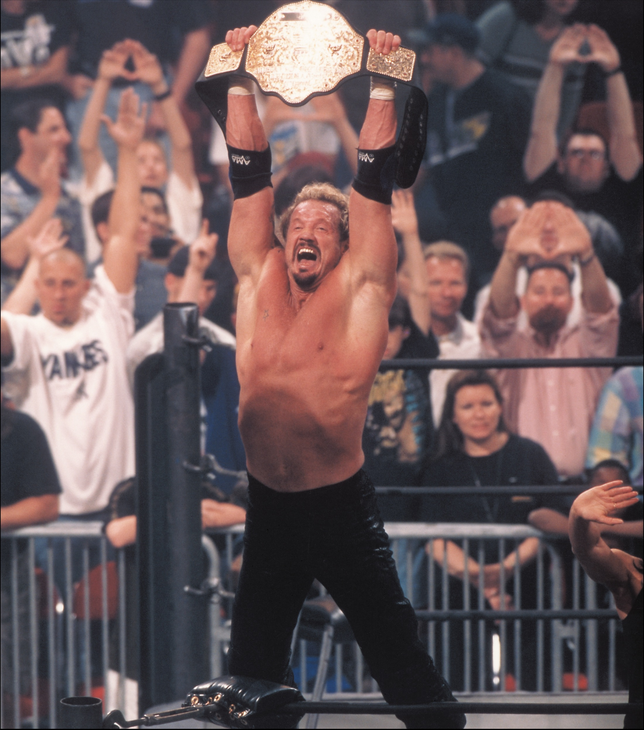 Owner of photo: Diamond Dallas Page Source: Received directly from owner Permissions to use this, and other, photos is on file with 20:09, 20 July 2007 (UTC) creative commons Attribute + Share-alike. Some rights reserved.